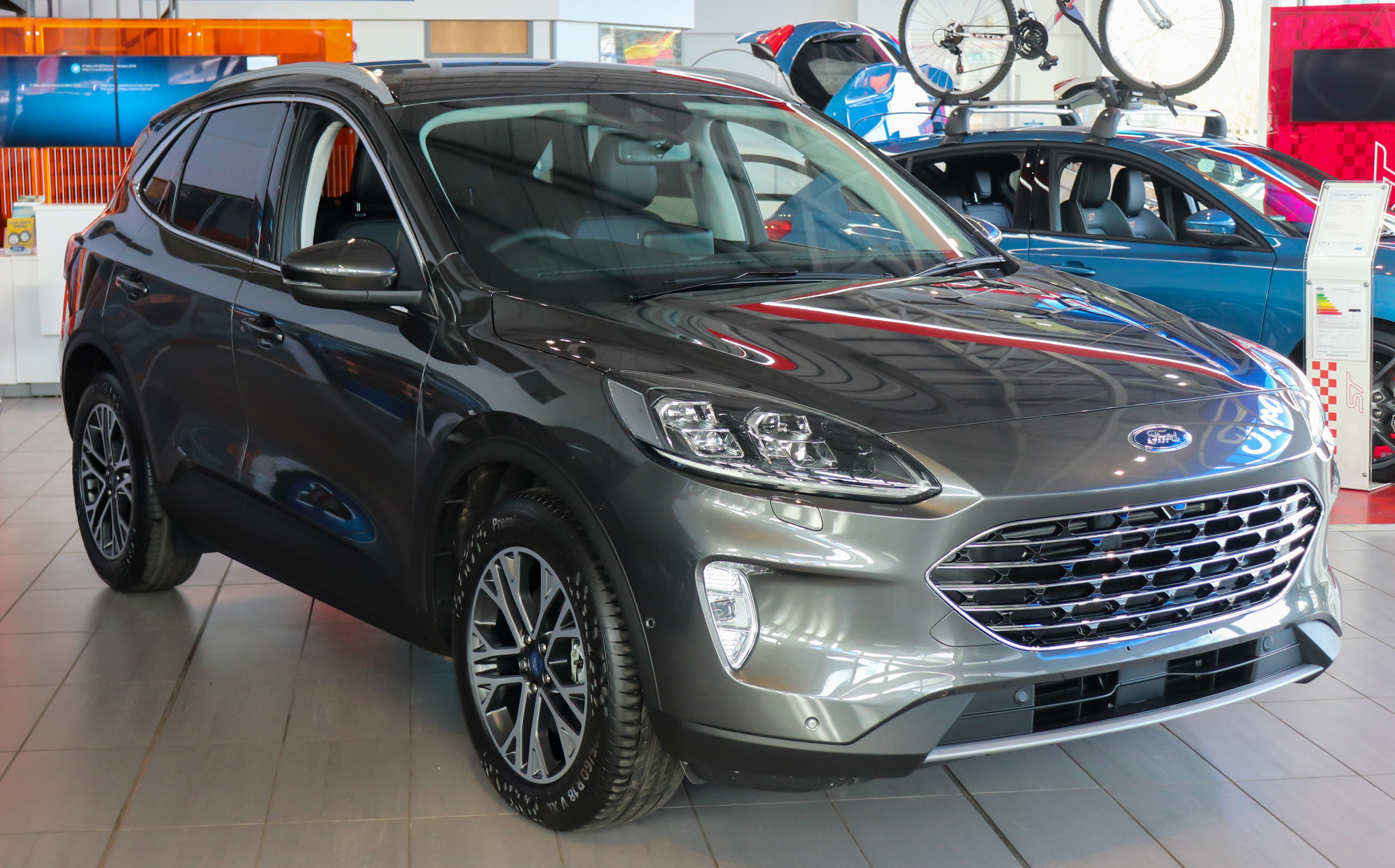 2020 Ford Kuga Titanium Plug-In Hybrid Front Taken in Leamington Spa